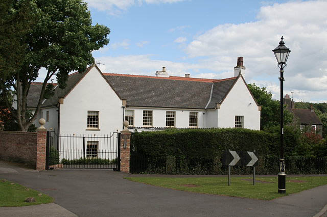 South Muskham Prebend One of the series of attractive Prebend houses surrounding the Minster.